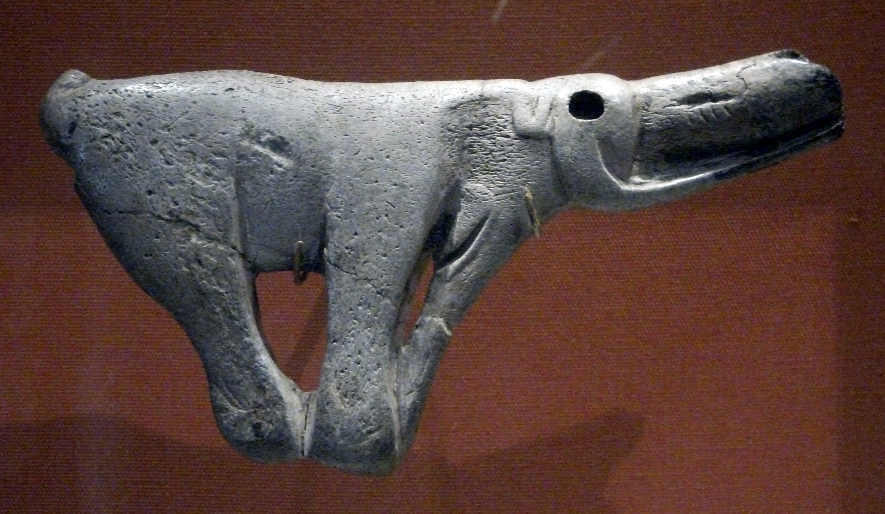 Spear thrower carved as a mammoth, Late Magdalenian, about 12,500 years old, From the rockshelter of Montastruc, Tarn-et-Garonne, France